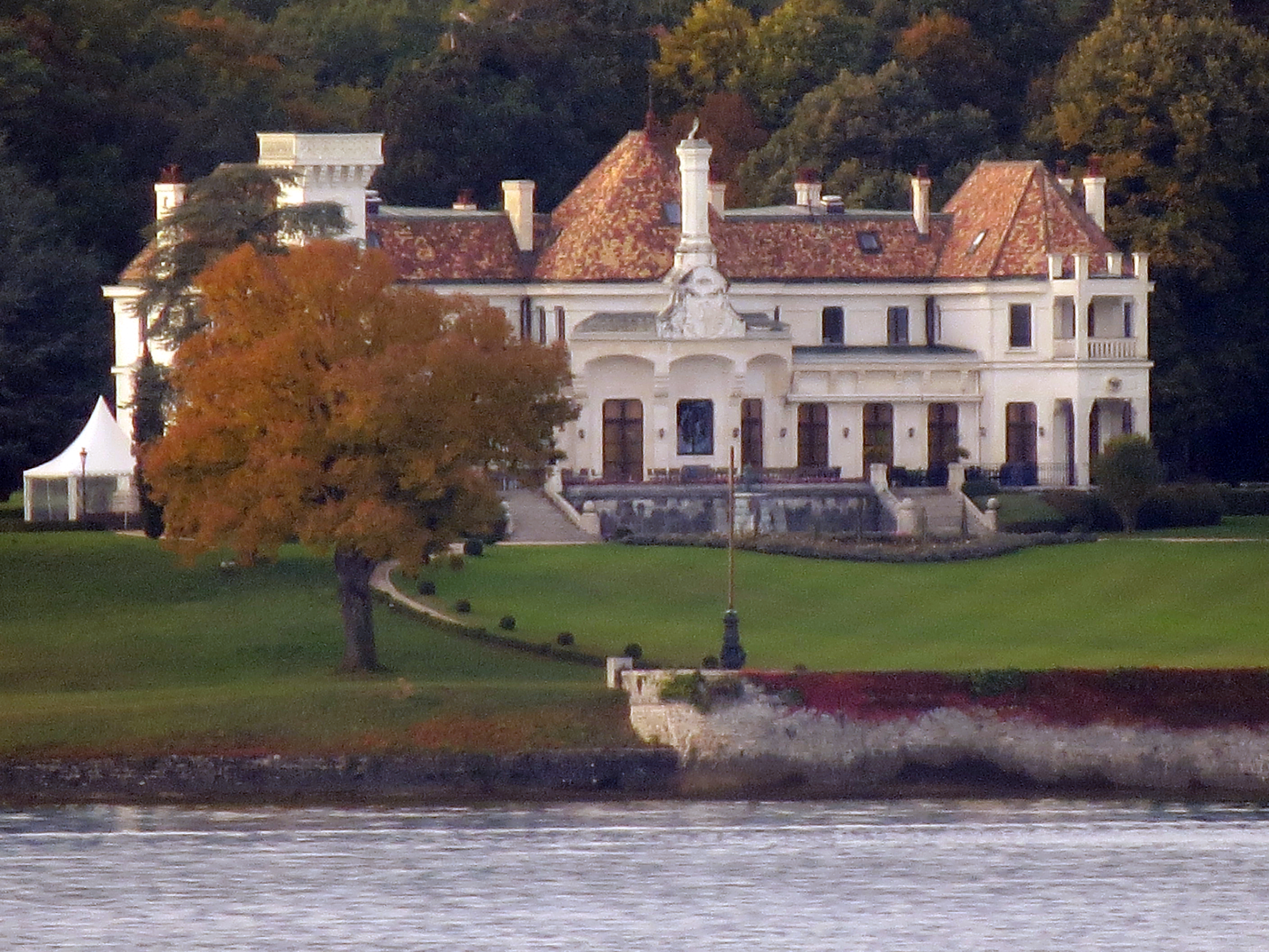 Villa Prangins, Gland, Switzerland